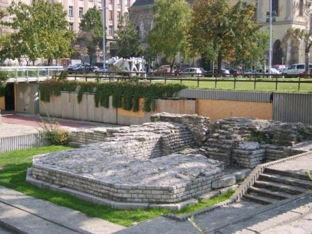 Ruins Contra-Aquincum